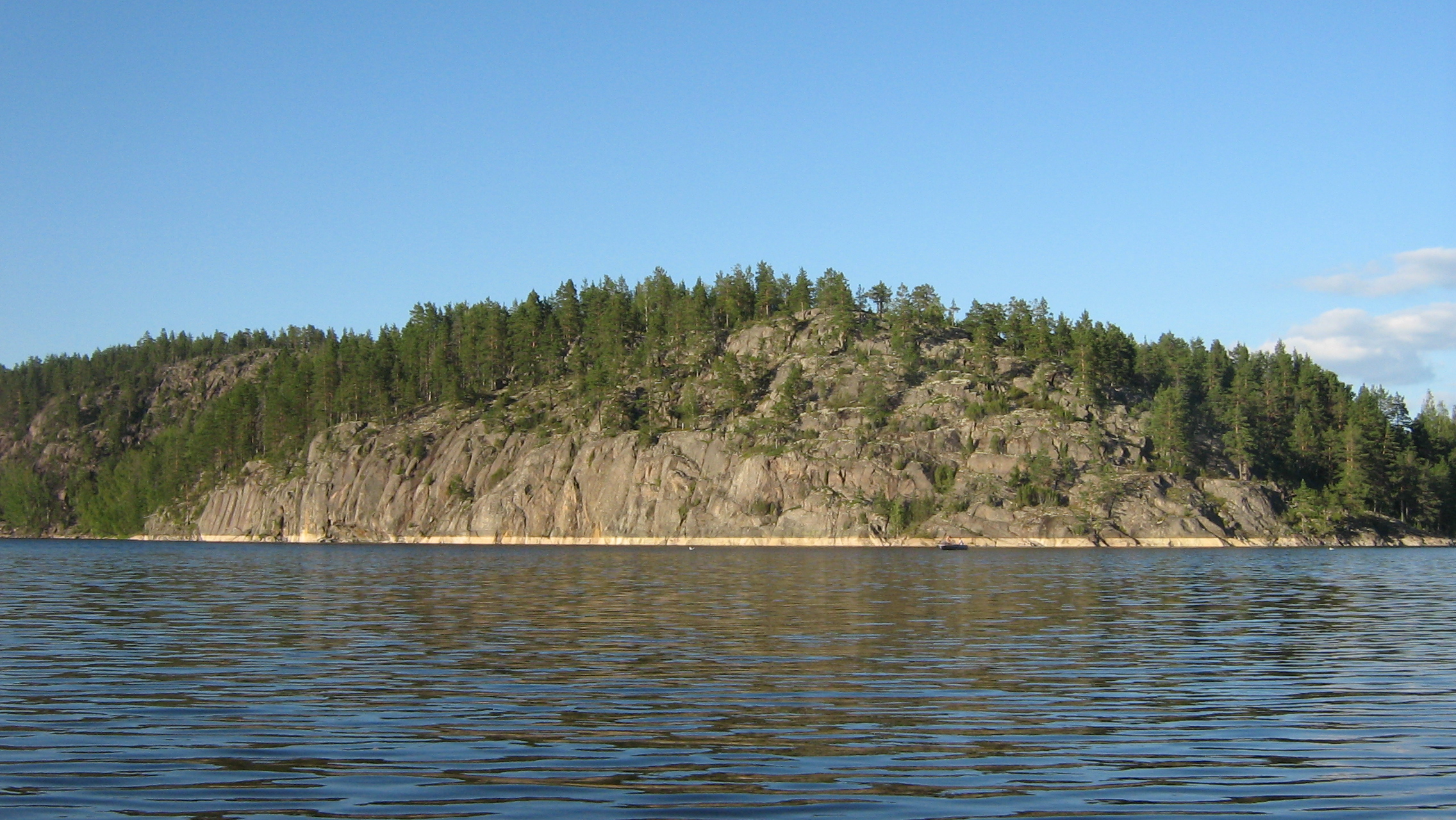 Ladoga